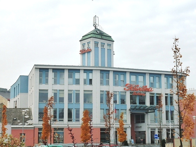 Fabrika - multifunction cultural center of Svitavy (Czech Republic, Pardubice region)